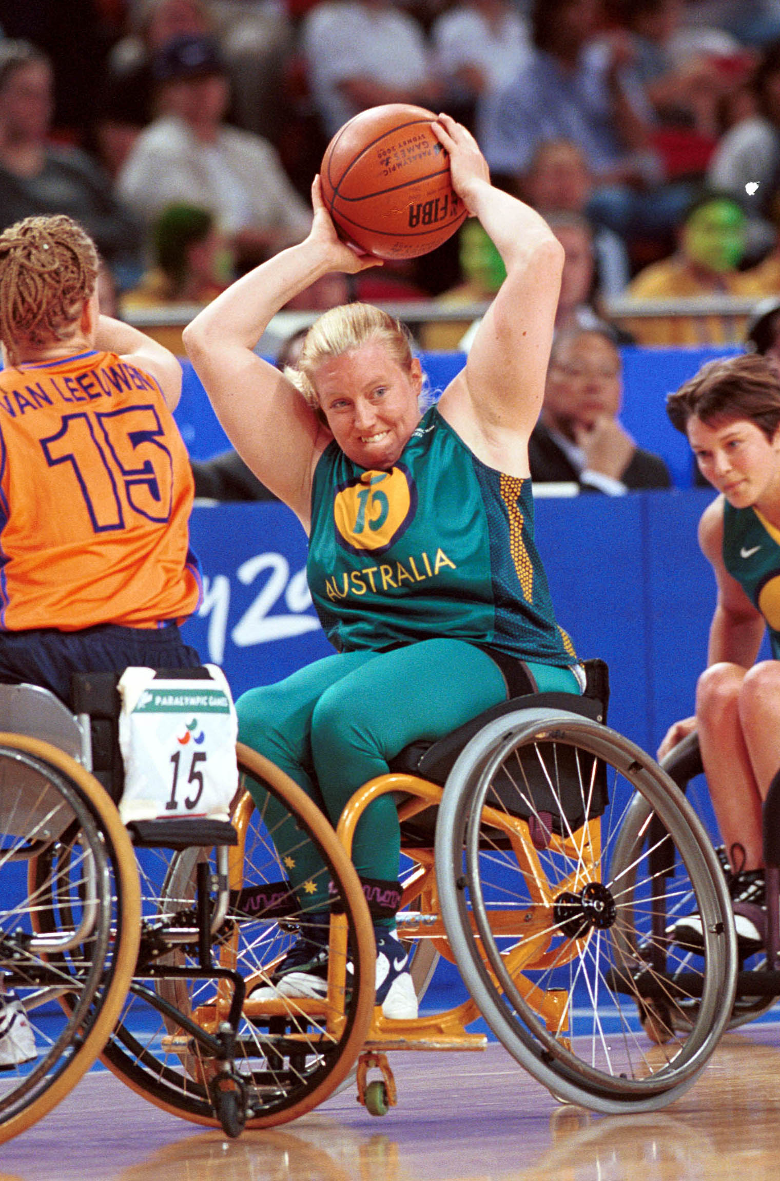 Australian wheelchair basketballer Jane Webb (now Sachs) struggles during a match at the 2000 Sydney Paralympic Games